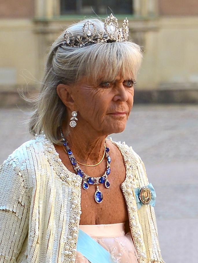 Princess Birgitta and Princess Margaretha on the way to the palace church at the Royal Palace in Stockholm before the wedding between Princess Madeleine and Christopher O'Neill 8 June 2013.